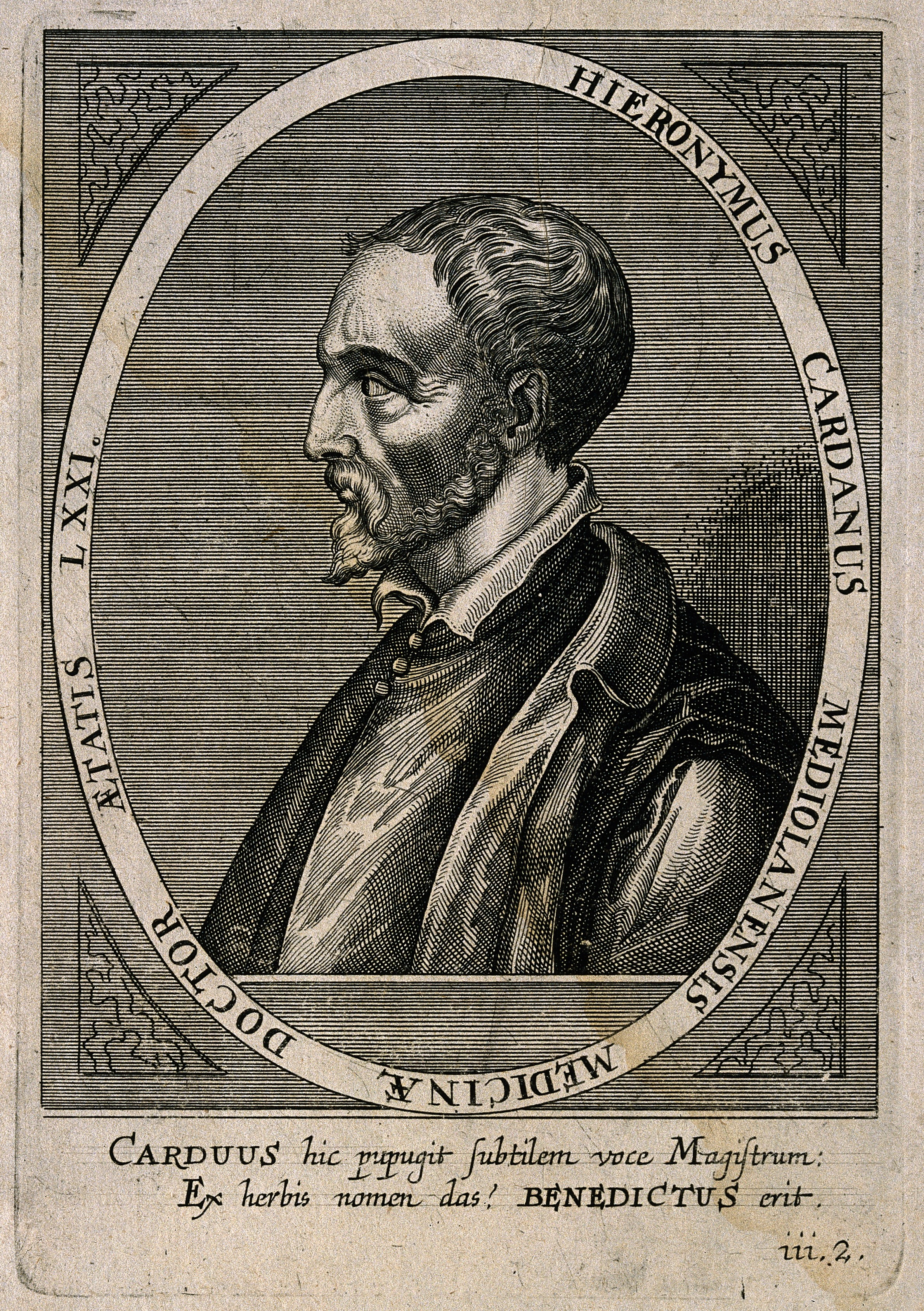 Girolamo Cardano. Line engraving by C. Ammon the younger, 1652. Iconographic Collections Keywords: portrait prints; cardanus, hieronymus, 1501-157; engravings; Hieronymus Cardanus; C. Ammon